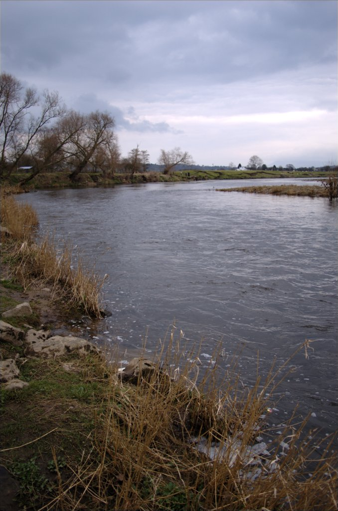 River Ribble at Ribchester in Lancashire, England Photograph by Stuart Grimshaw ( The River Ribble at Ribchester in Lancashire, England, 19 March 2006. From site (Creative Commons licensing information listed under "Additional Information" on source page.)